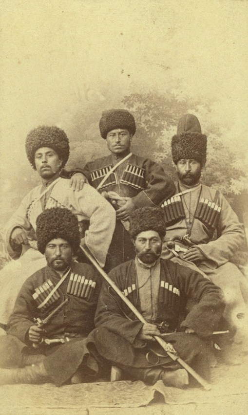 Group portrait of five men, seated, facing front. Written on verso: Chechense - Match - a wedding match